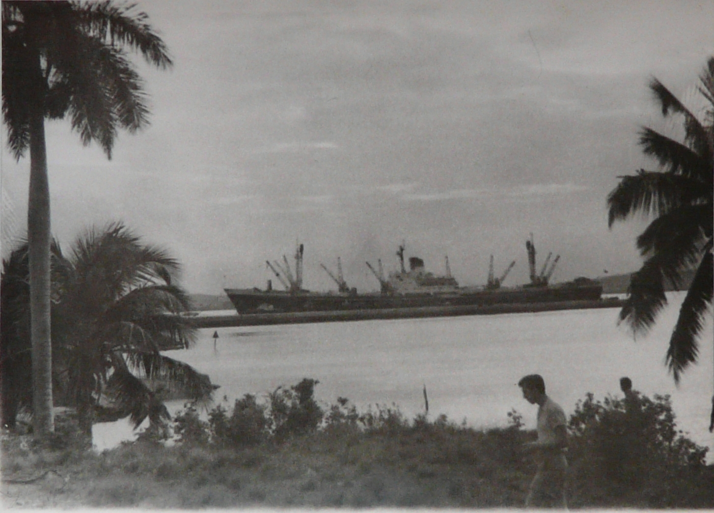 Soviet Union vessel Metallurg Anosov on the Cuba during cargo operations. Photo was maden between July 1964 and December of 1965 (can be later also).